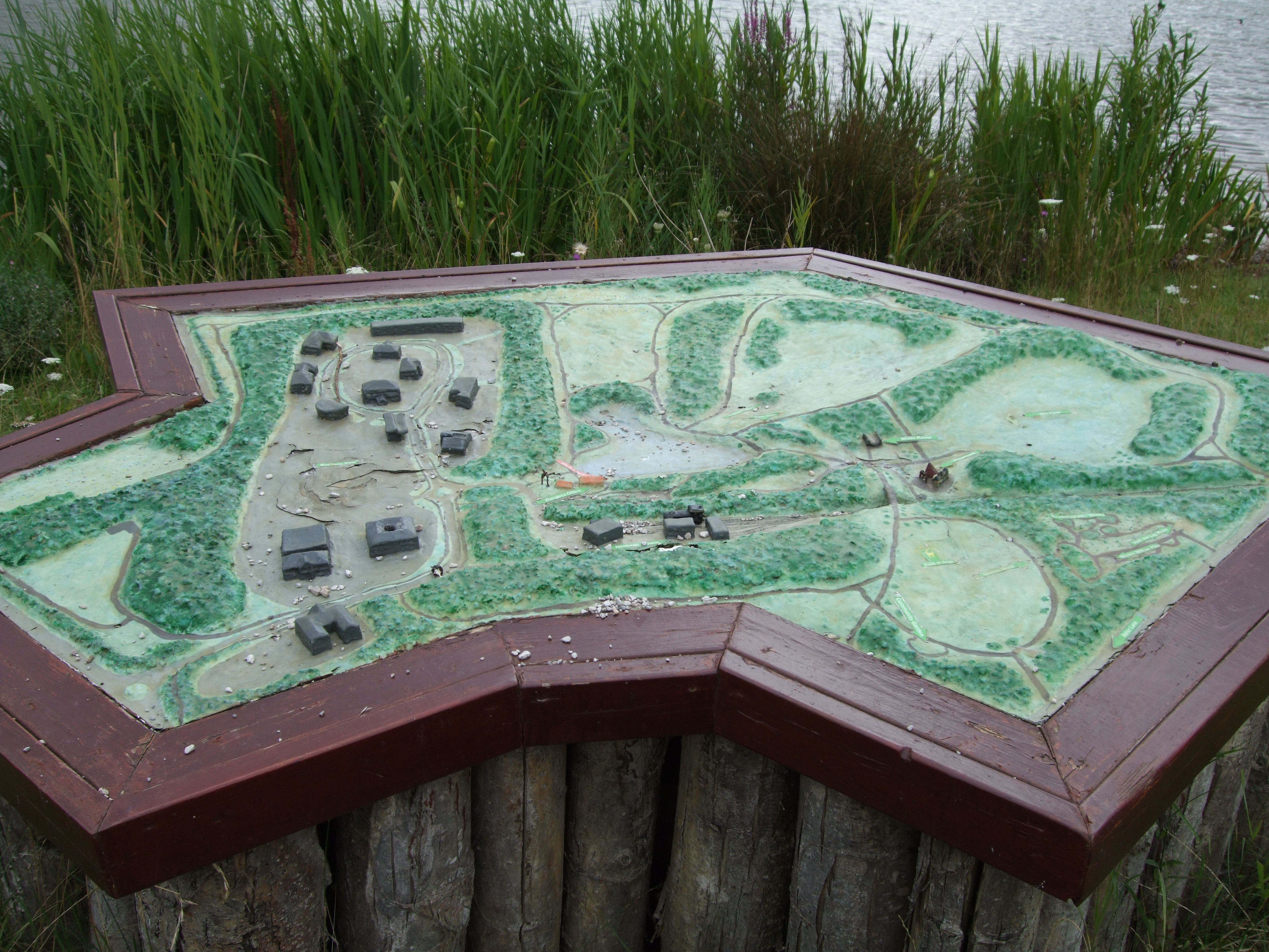 Map of Rushcliffe countyr park